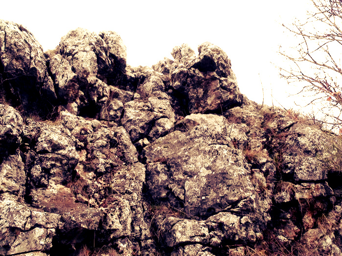 St Peter Solar shrine Sekirna BG